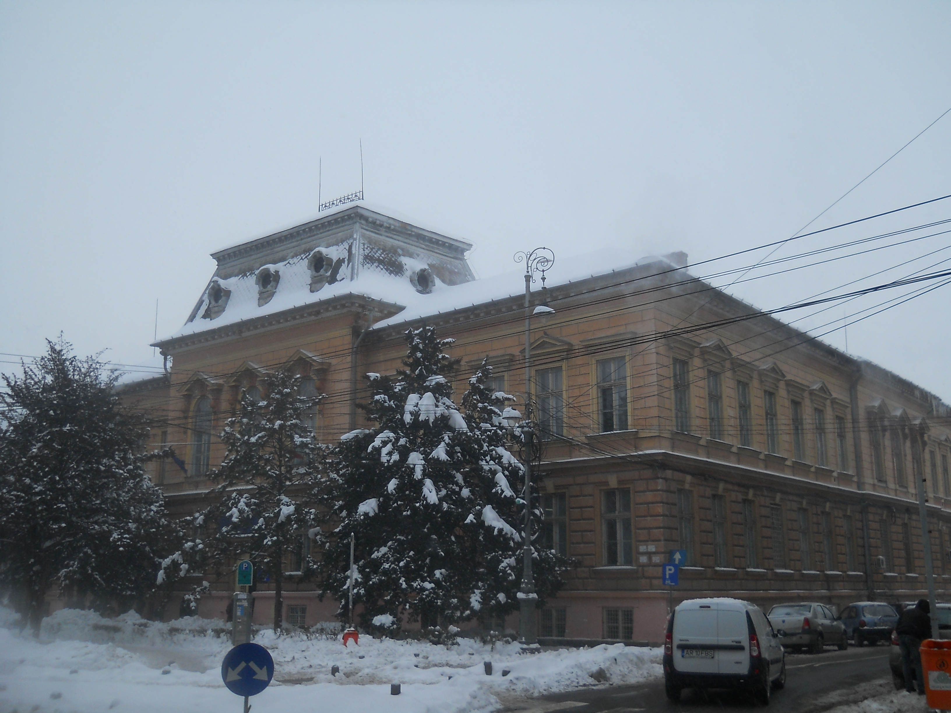 Academia de comert